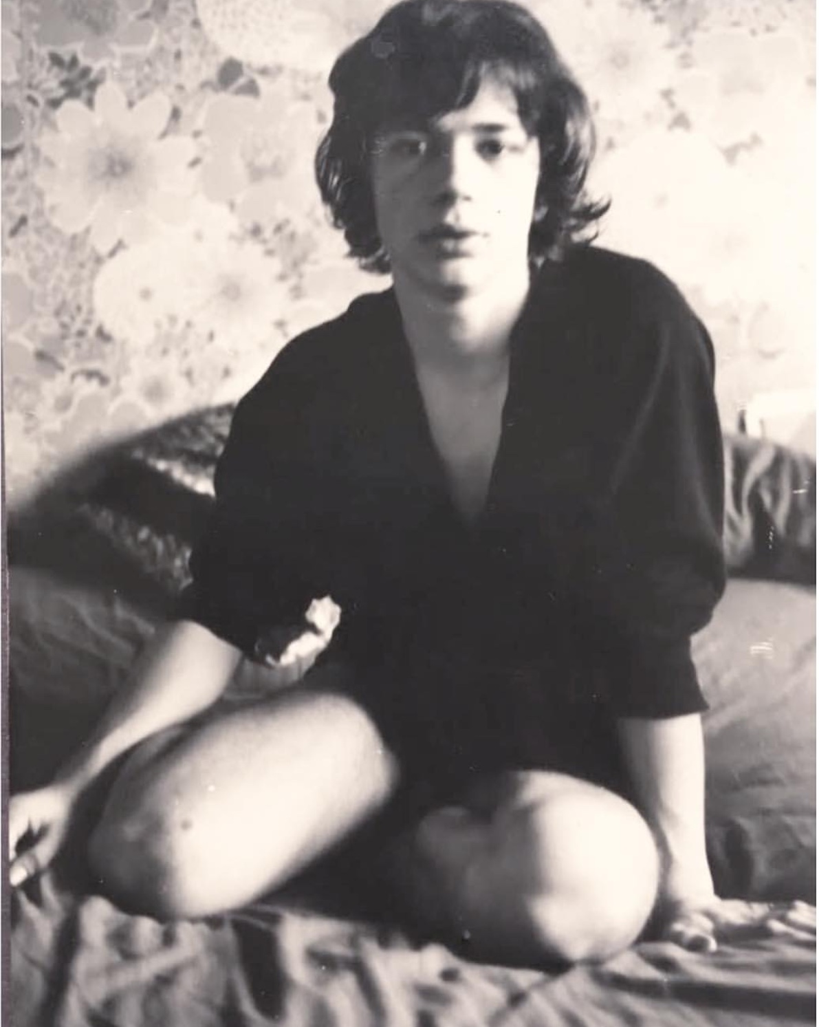 Olivier Zahm photographed in 1979 in Paris, France